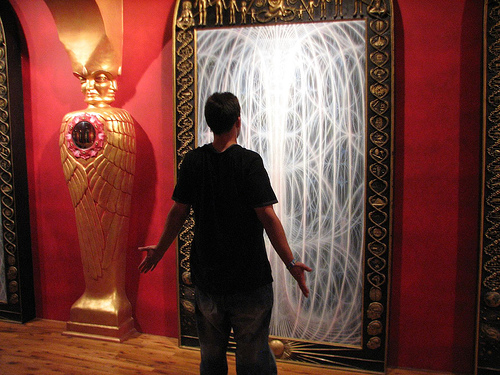 Inside the Chapel Of Sacred Mirrors.